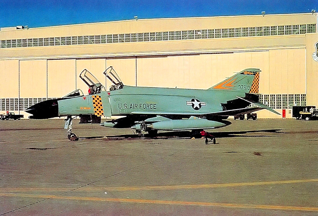 F-4C 63-7610 171st Fighter-Interceptor Squadron, MI ANG in ADCOM Grey at Selfridge ANGB